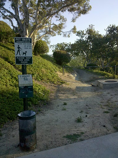 This was taken at Jean Woodward City Park in Yorba Linda, California.